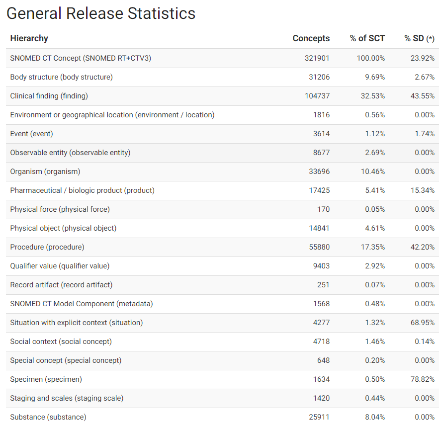 Snomed CT statistics. SD stands for Sufficiently Defined (in description logic)